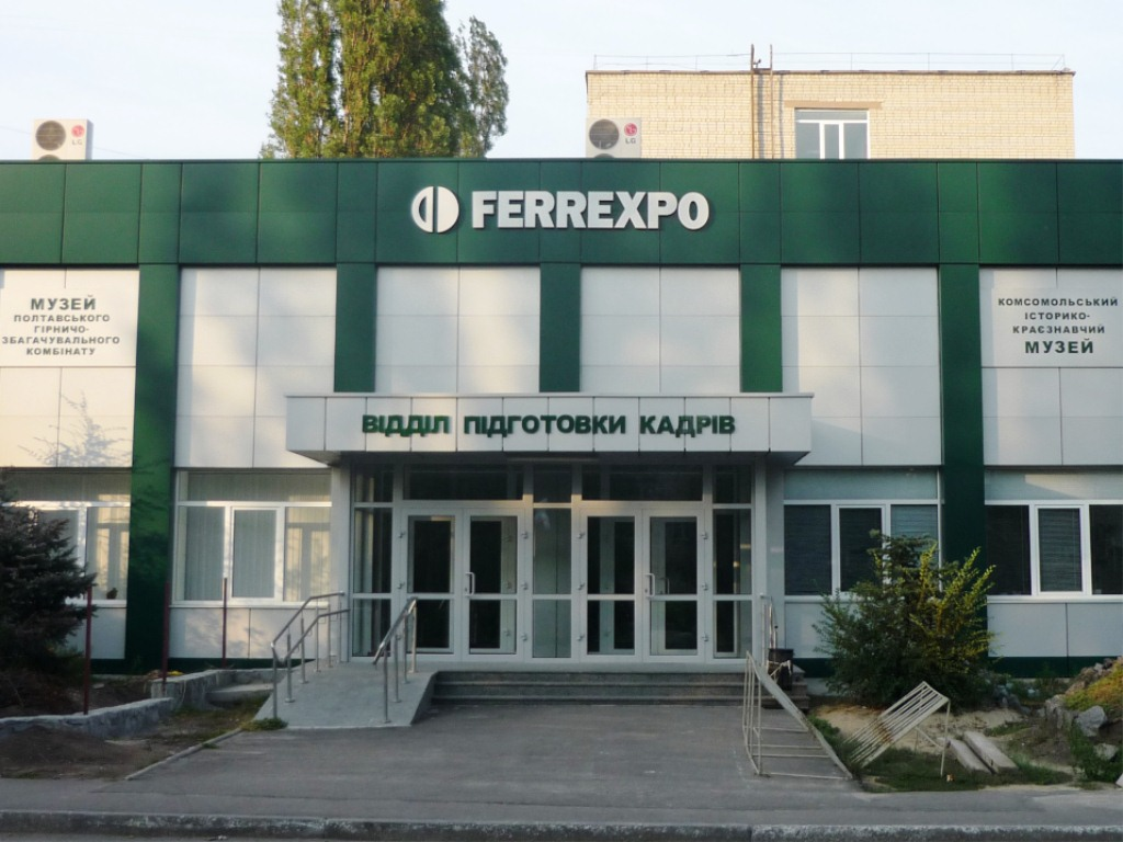 Horishni Plavni, Poltava Region, Ukraine